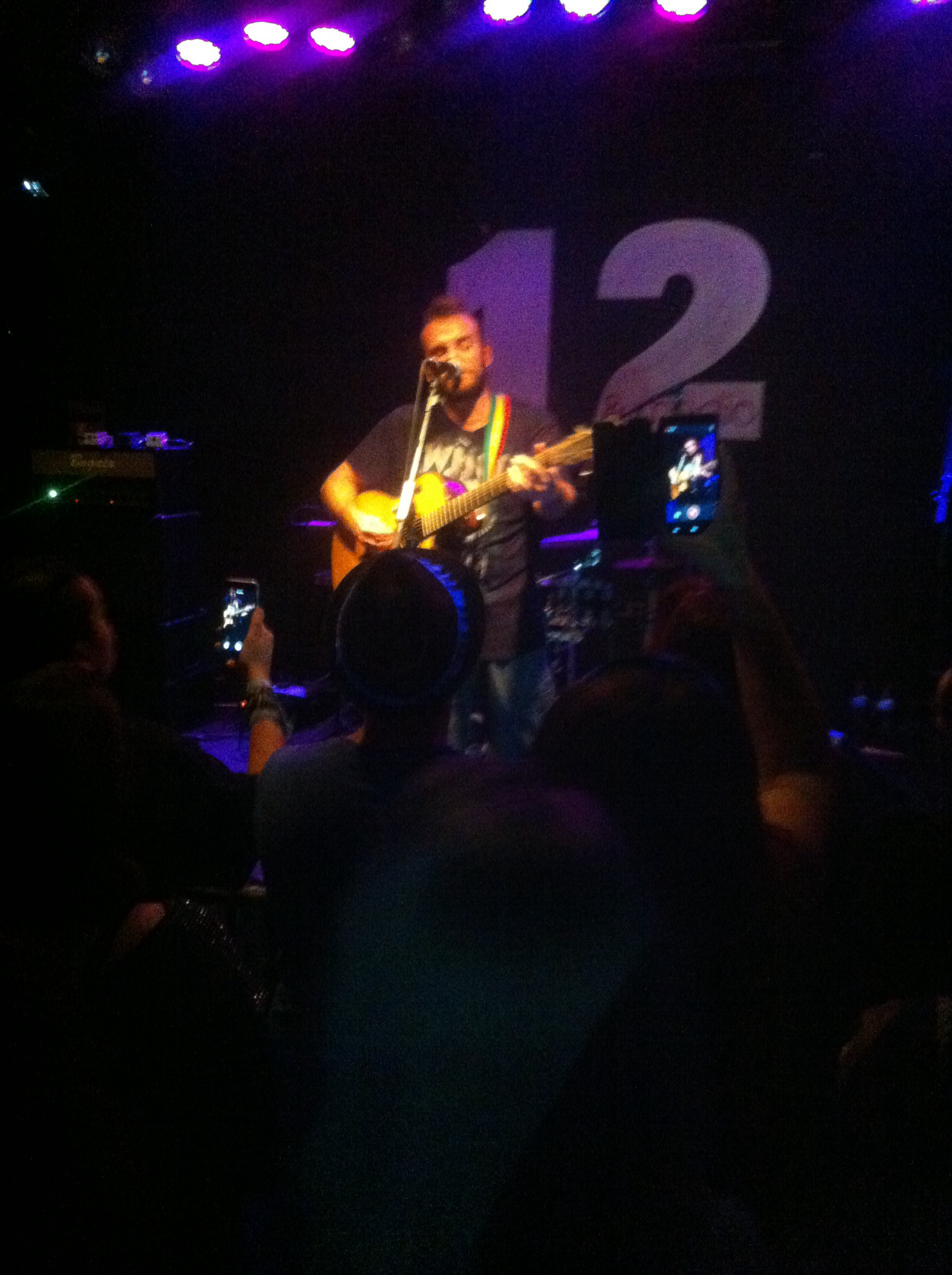 That's the spanish singer known as "El Niño de la Hipoteca"